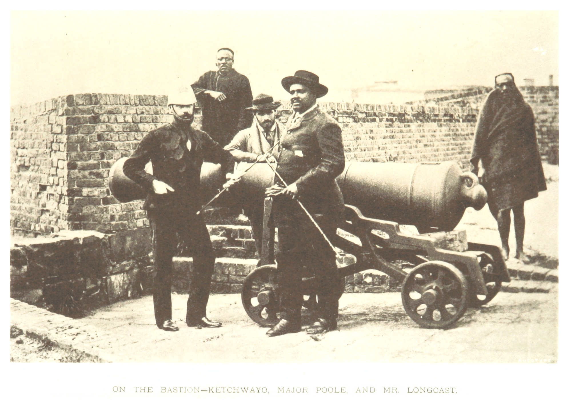 Cetshwayo kaMpande, King of a Zulu tribe, in his prison near Cape Town